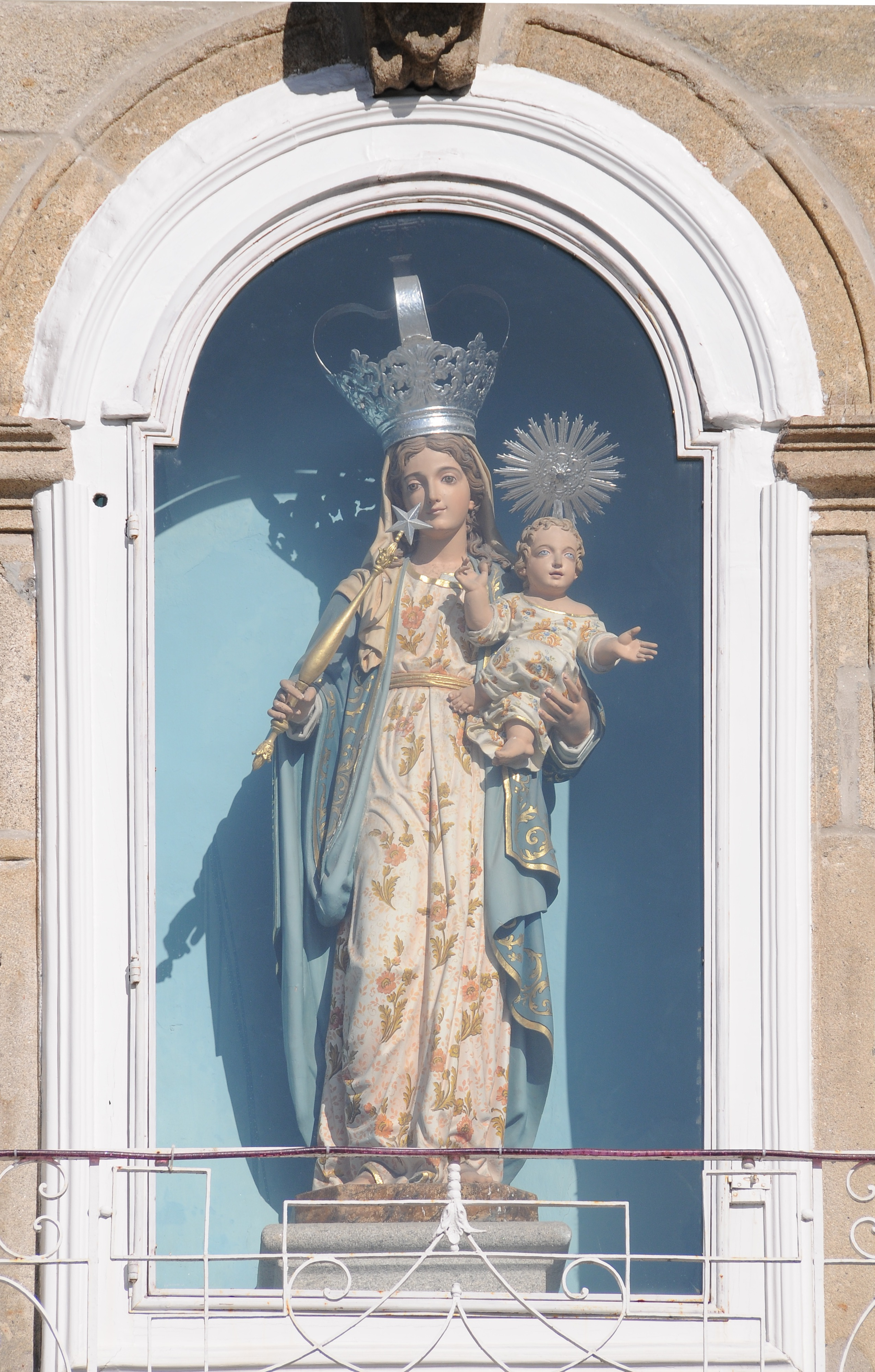 Our Lady of the Snow in Senhora-a-Branca Church, In Braga, Portugal